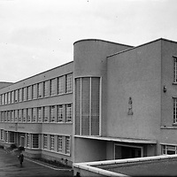 View of main entrance area